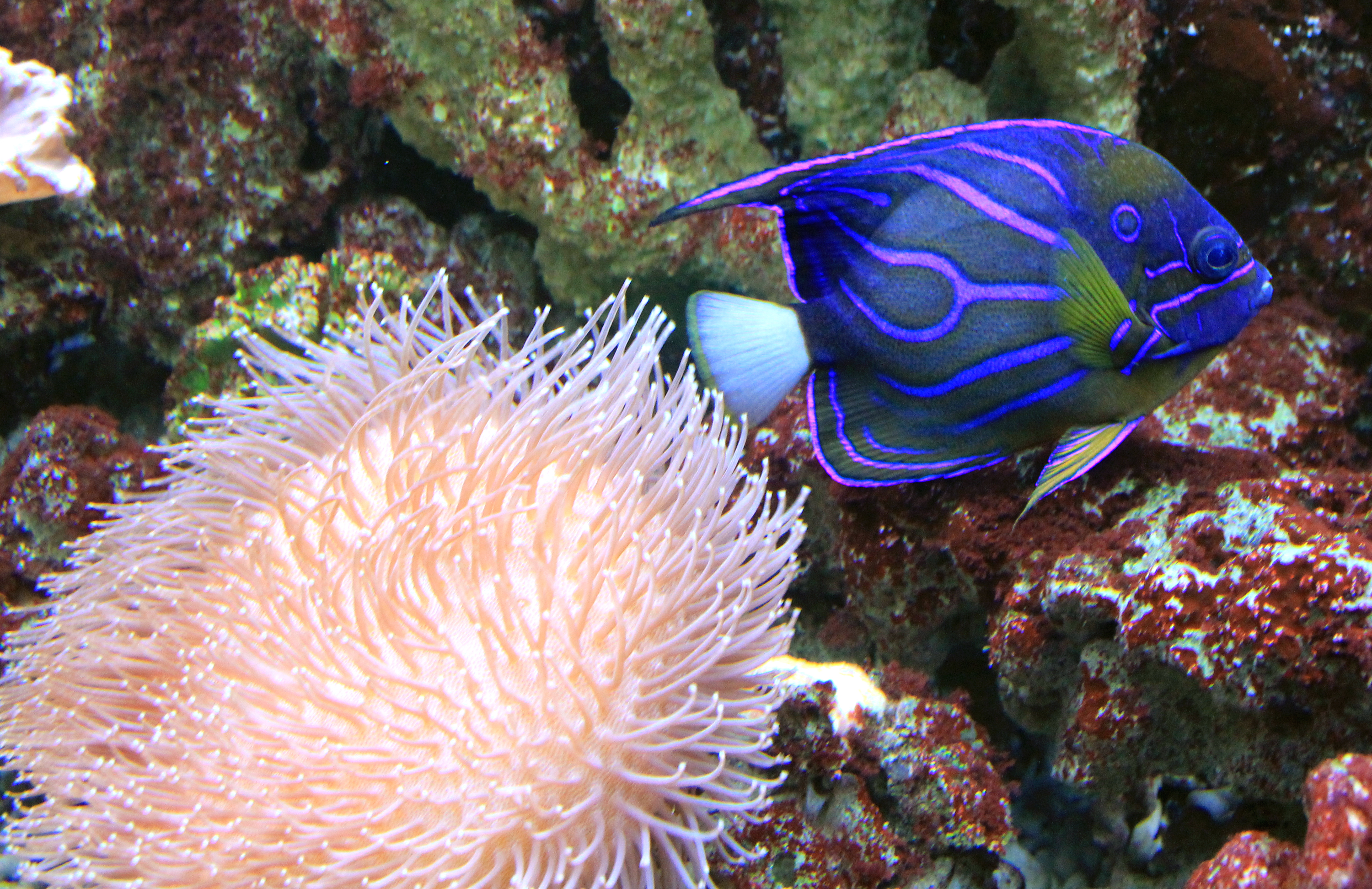 Fish Blue ring angelfish, Pomacanthus annularis in Prague sea aquarium, Czech Republic